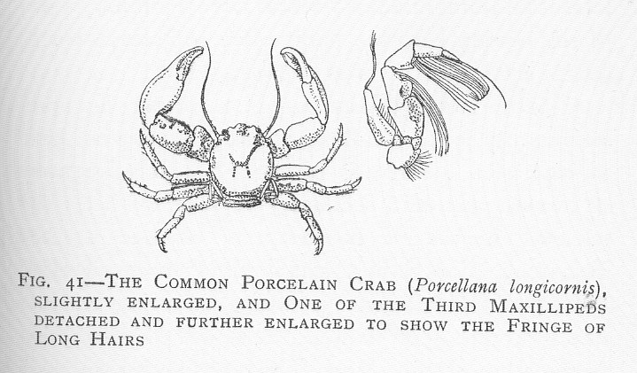 Common porcelain crab (Porcellana longicornis)..., and one of the third maxillipeds detached and further enlarged to show the fringe of long hairs Subject: Porcellanidae, Crabs Tag: Shellfish